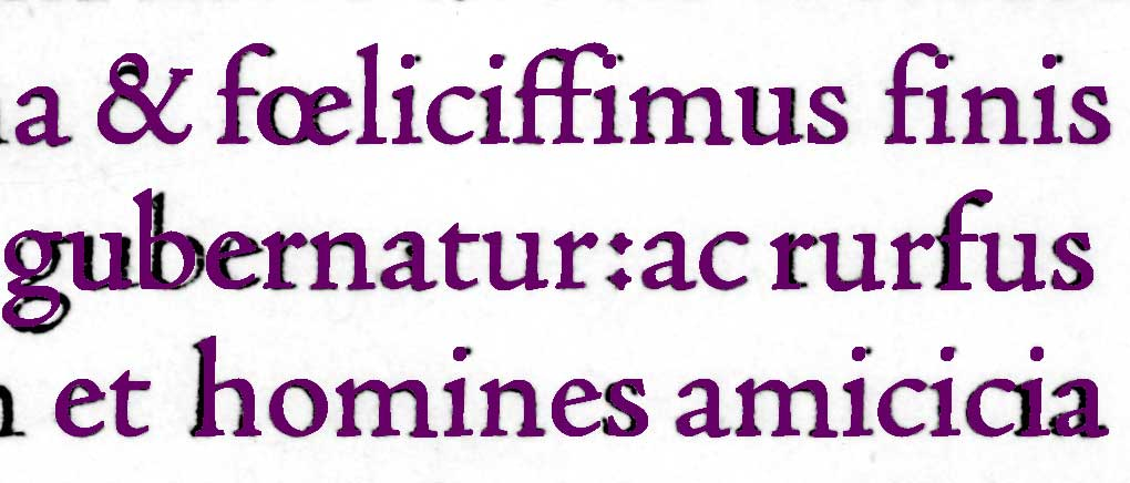 Printing of Jenson plus Adobe Jenson